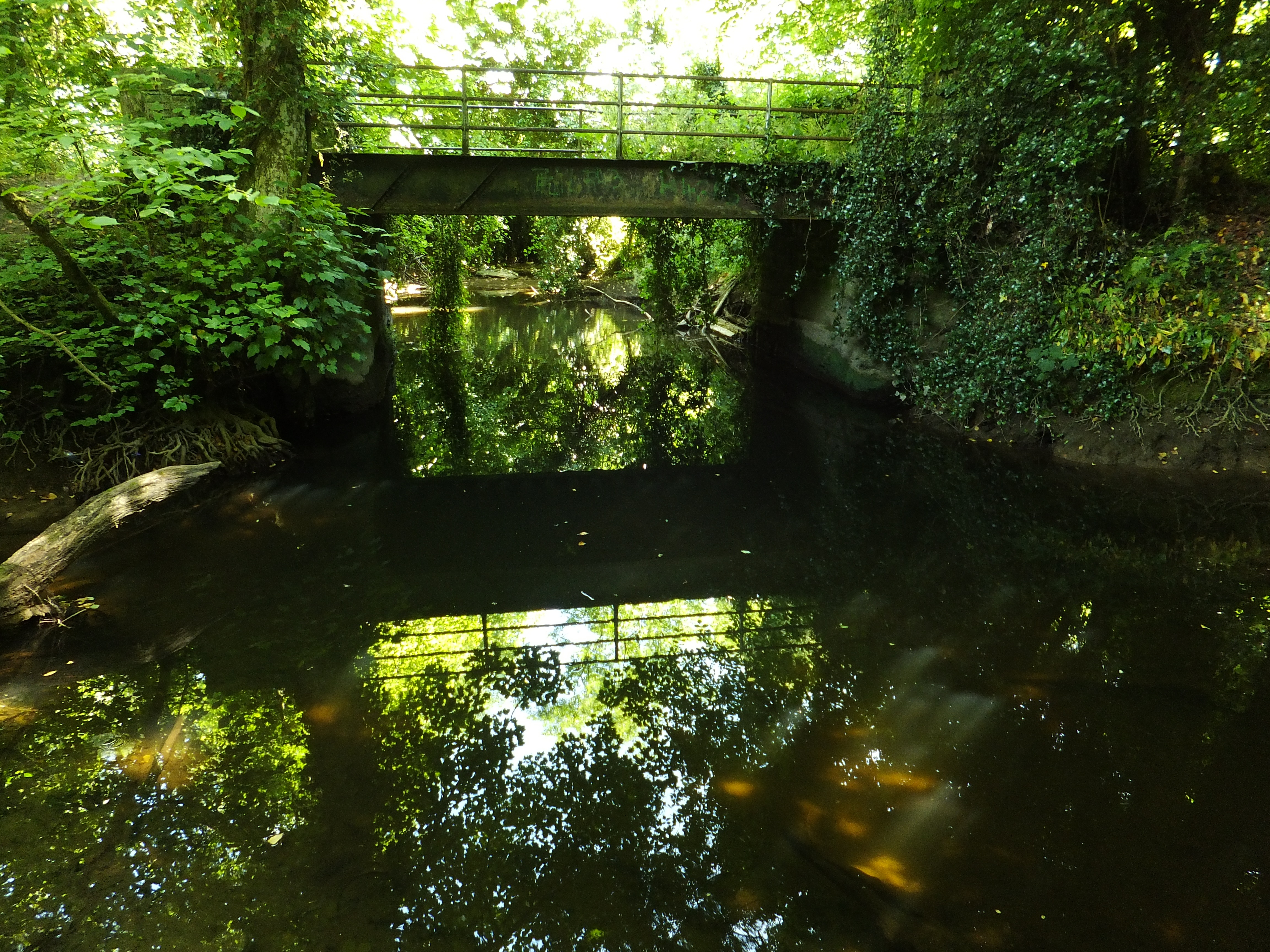 Brackenstown Garden & Canal